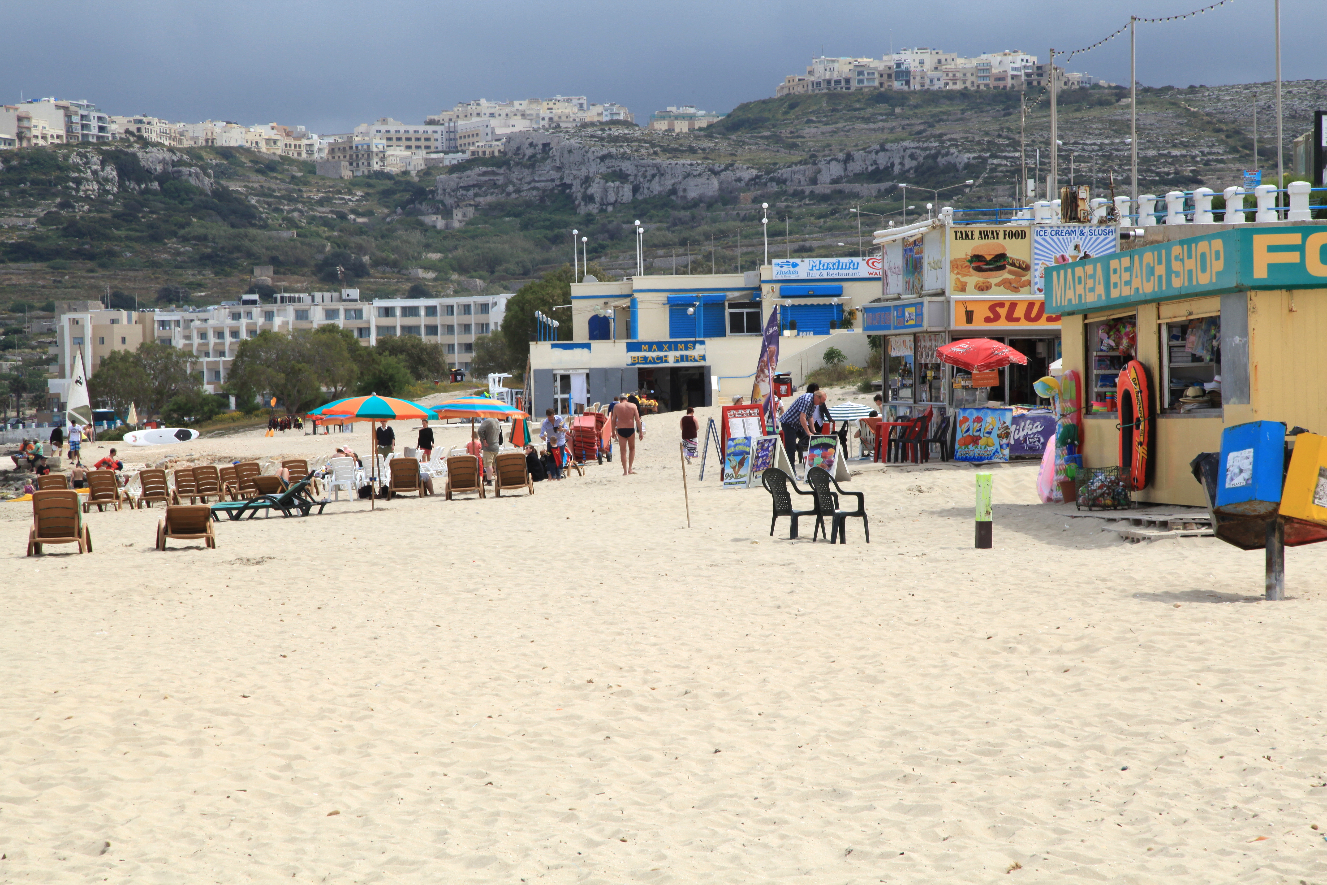 Beach of the Mellieħa Bay at Triq il-Marfa in Mellieħa, Malta